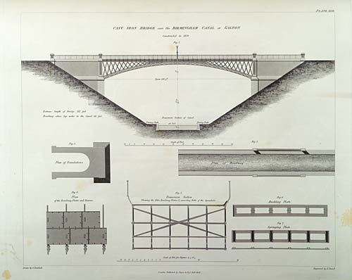 From Atlas to the Life of Thomas Telford, Civil Engineer containing eighty-three copper plates, illustrative of his professional labours, 1838